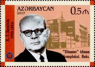 Union of Architects of Azerbaijan. N 1311 - 50 qapik. - There are pictured Konstantin Senchikhin and "Dinamo" sports complex in Baku on the stamps.